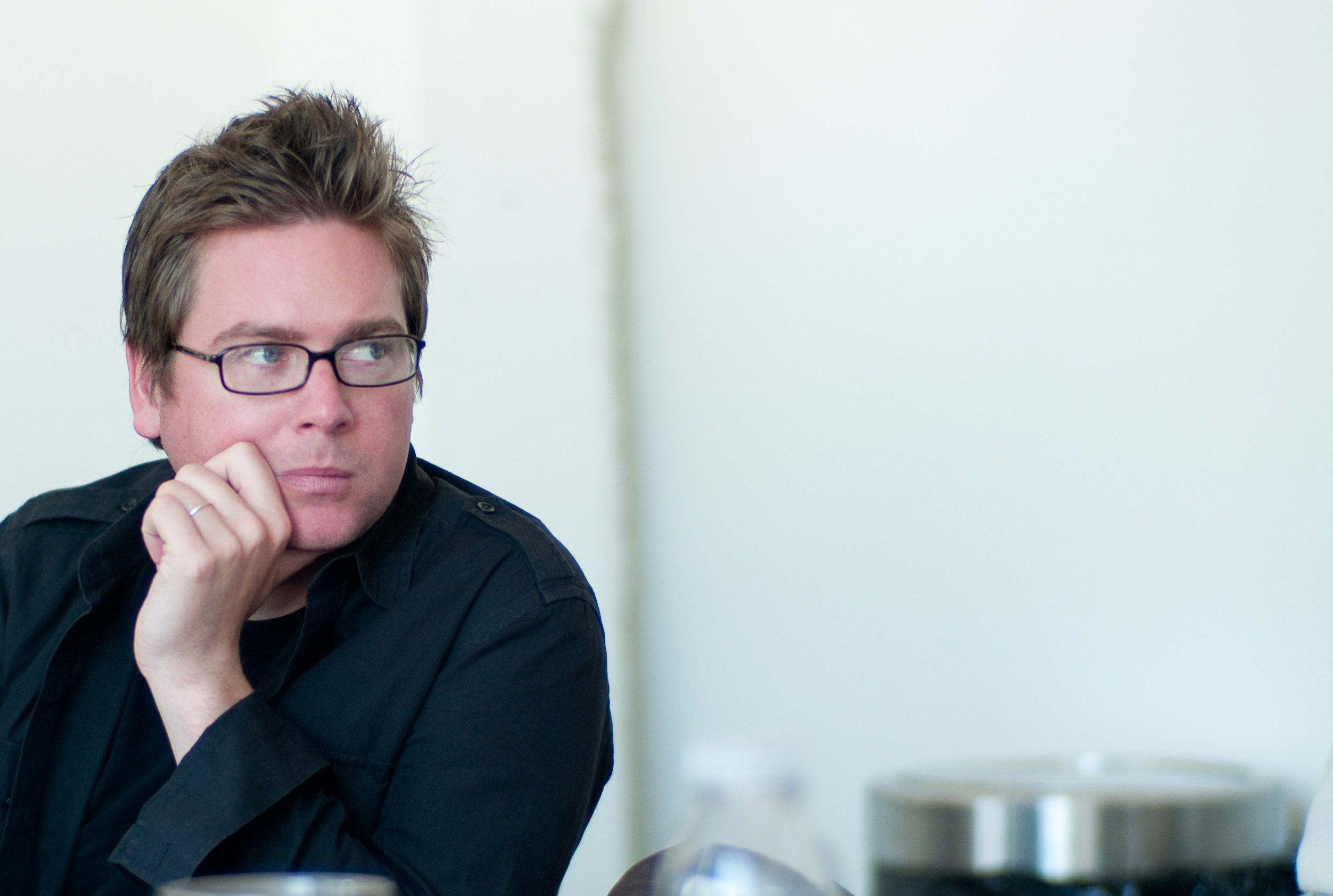 Biz Stone